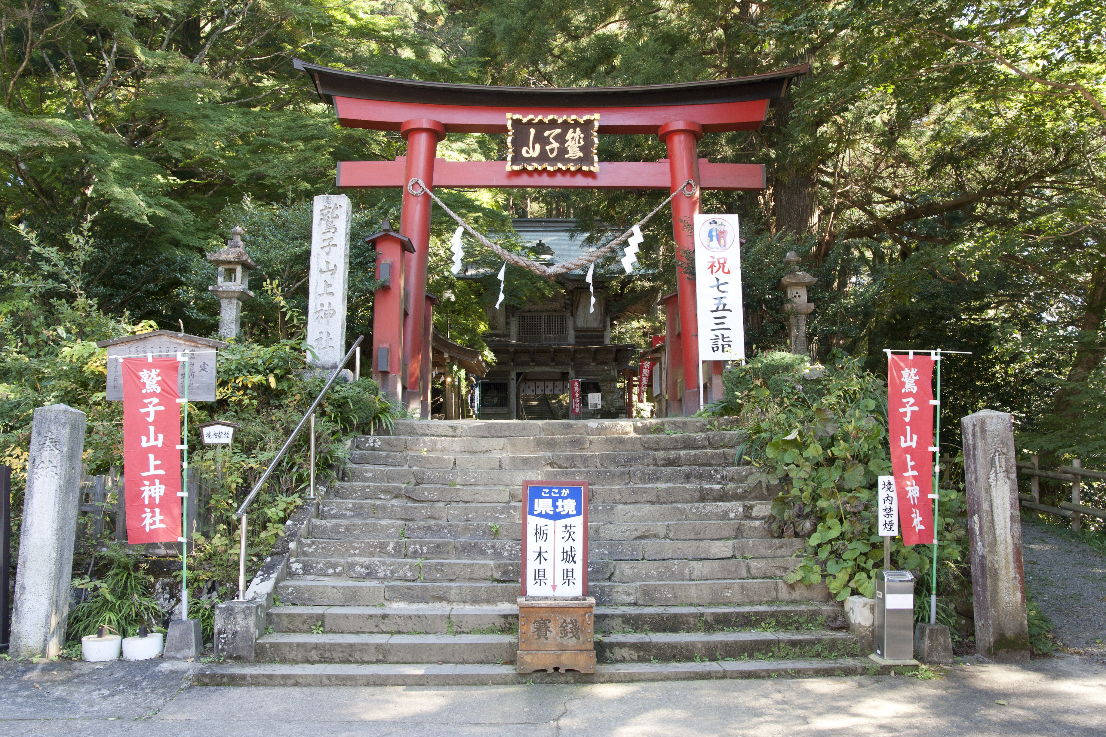 Torinoko-Sanjo Shrine（鷲子山上神社 とりのこさんじょうじんじゃ）, Ibaraki and Tochigi Prefectures, Japan